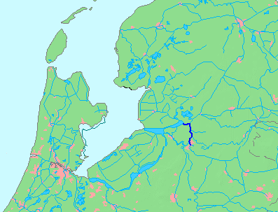 Location of a waterway (river/canal) in the Netherlends